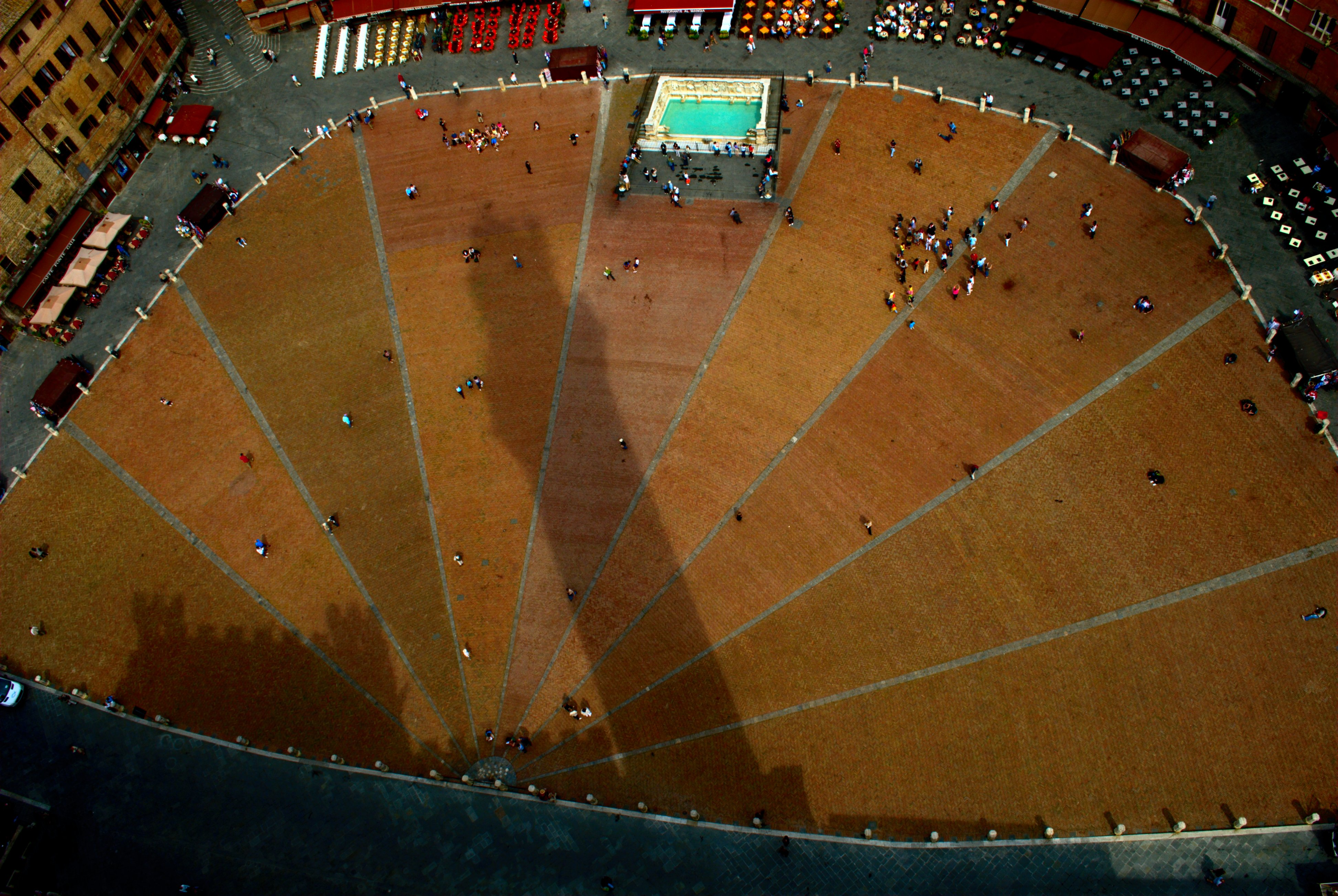 A view from the top of the tower to the main square in the old part of Siena.